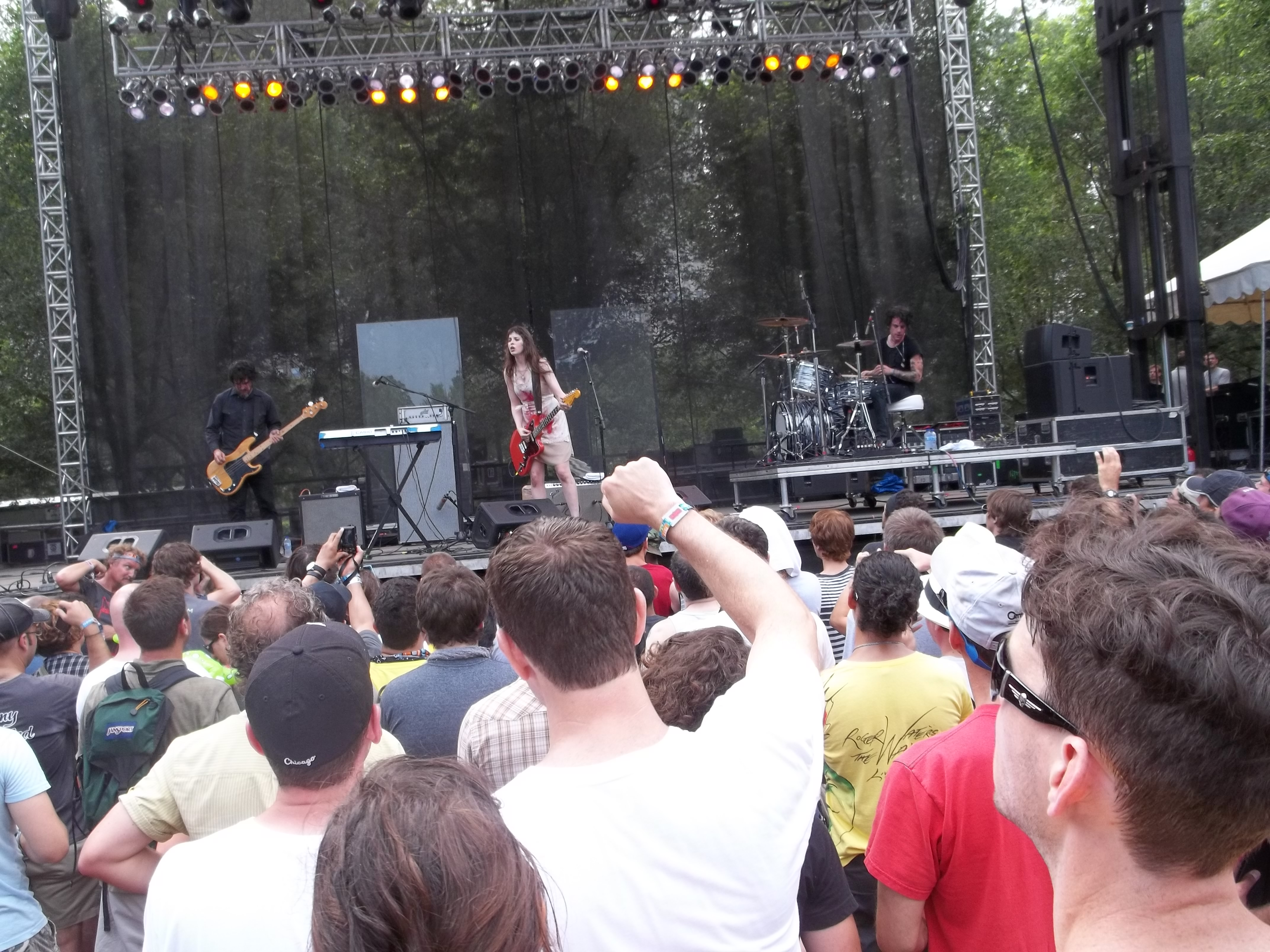 Le Butcherettes performing at Lollapalooza 2011 in Chicago, Illinois